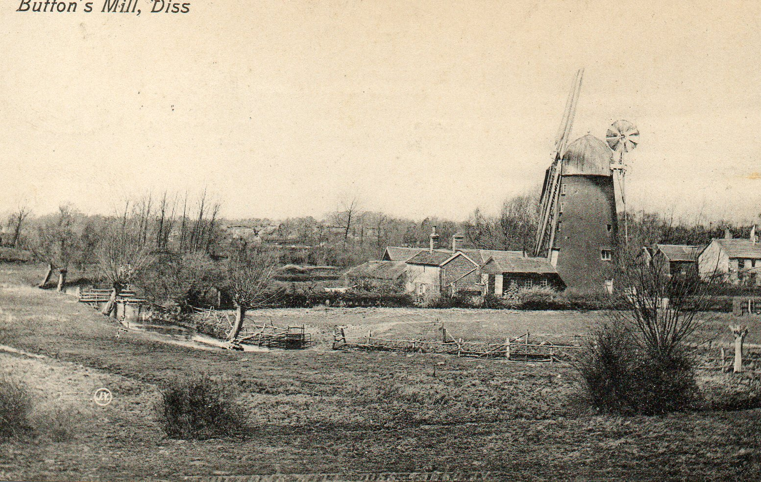 Postcard showing Button's Mill, Diss. Published by Valentine's, posted on 21-8-1911